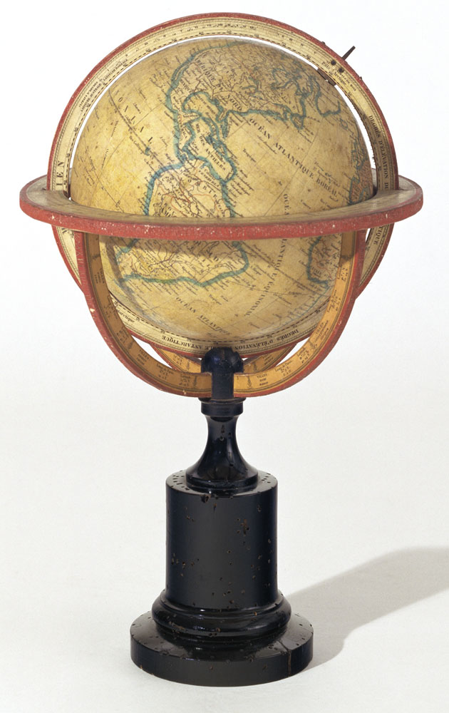 AuthorMaison DelamarcheDescription